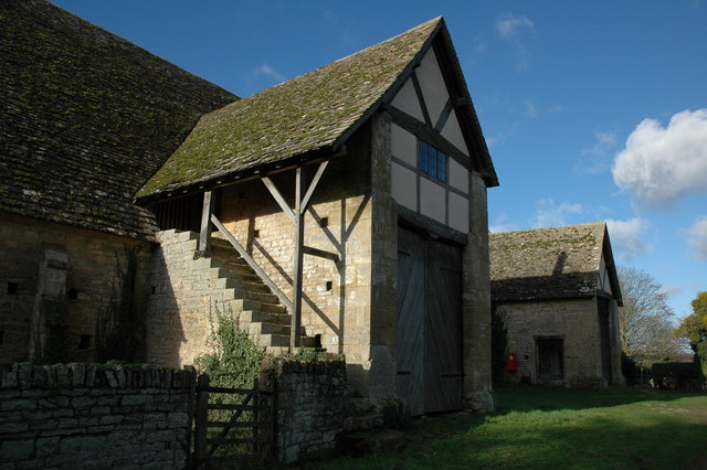 Bredon Tithe Barn Bredon Tithe Barn dates from the 14th century and is in the care of the National Trust. In 1980 the barn suffered a devastating fire when it lost much of its roof and afterwards was carefully restored. For more information